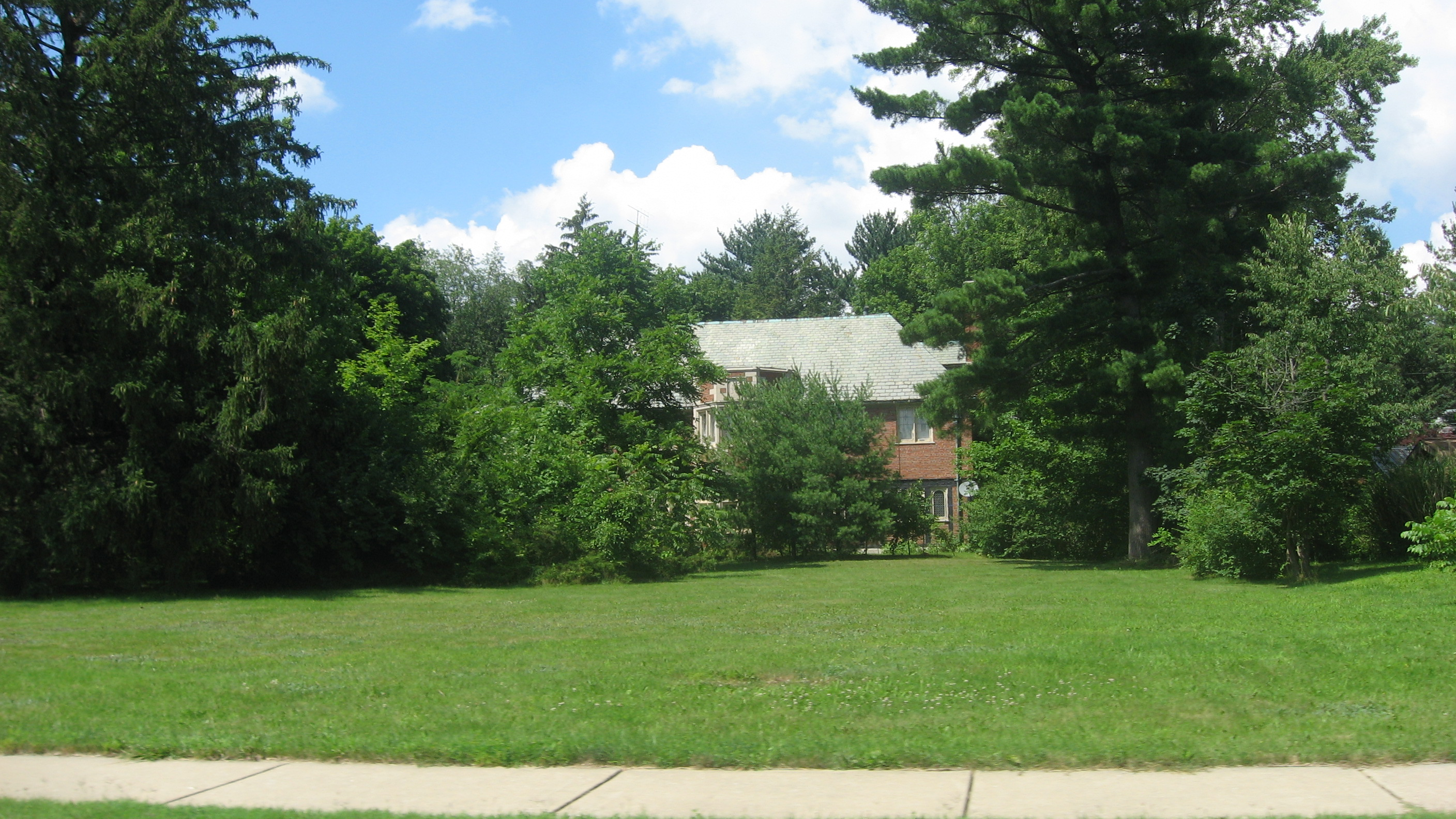 Front of the James A. Judie House, located at 1515 E. Jefferson Boulevard in South Bend, Indiana, United States. Built in 1930, it is listed on the National Register of Historic Places.